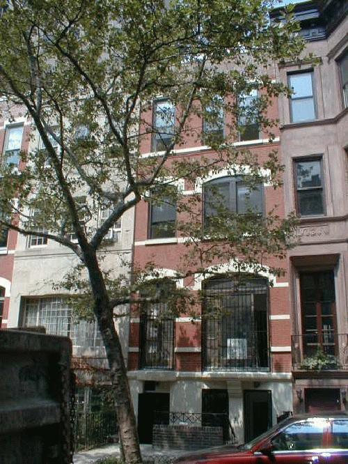 Carnegie Hill townhouses.